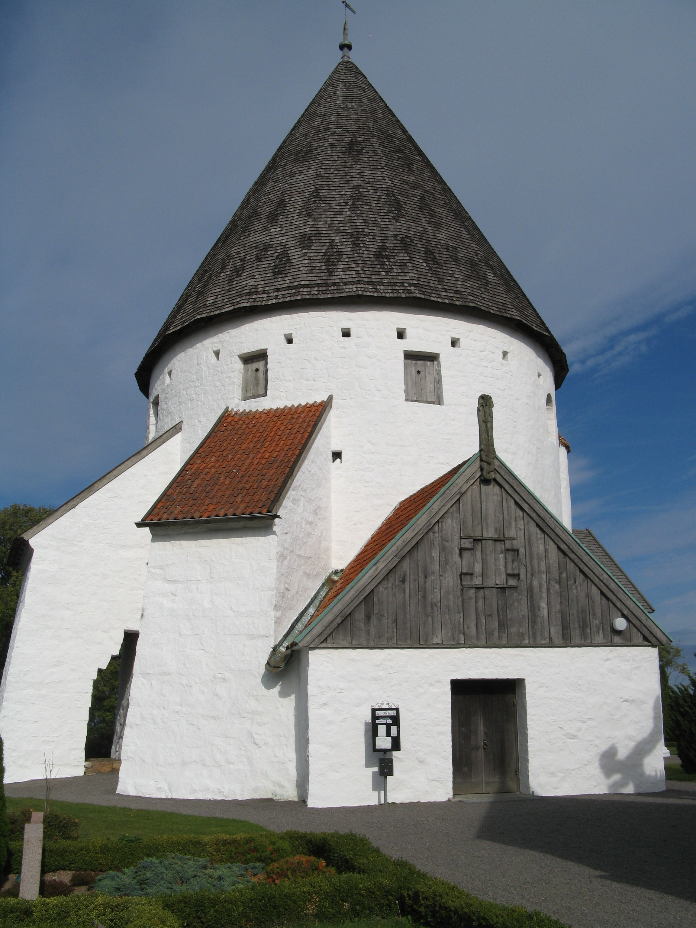 Church of Olsker, Bornholm